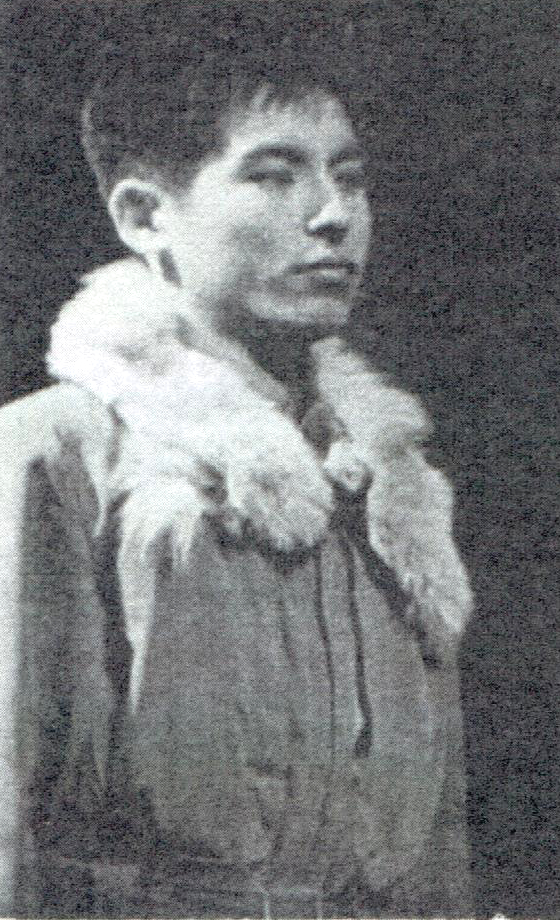 Kantarō Suga